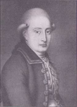 Portrait painting of Hohan Peter Suhr